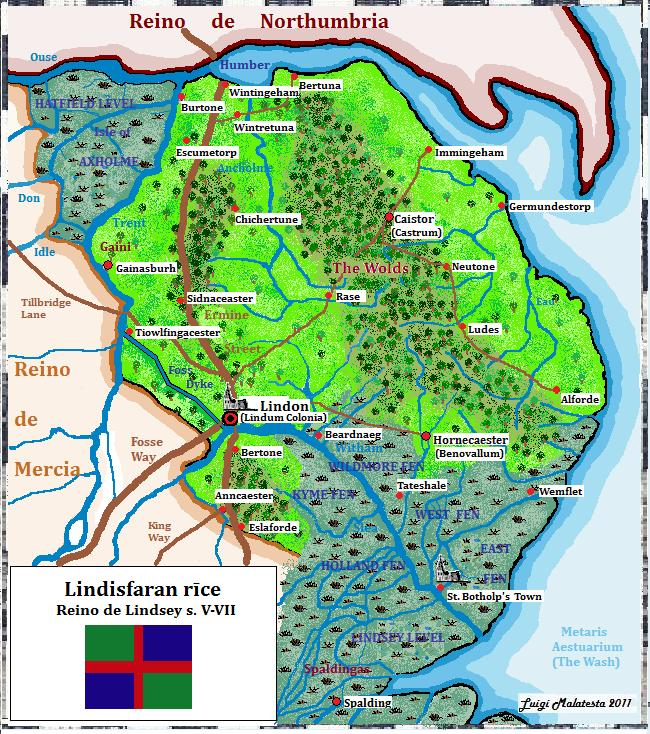 Map of the ancient Kingdom of Lindsey (Lincolnshire)